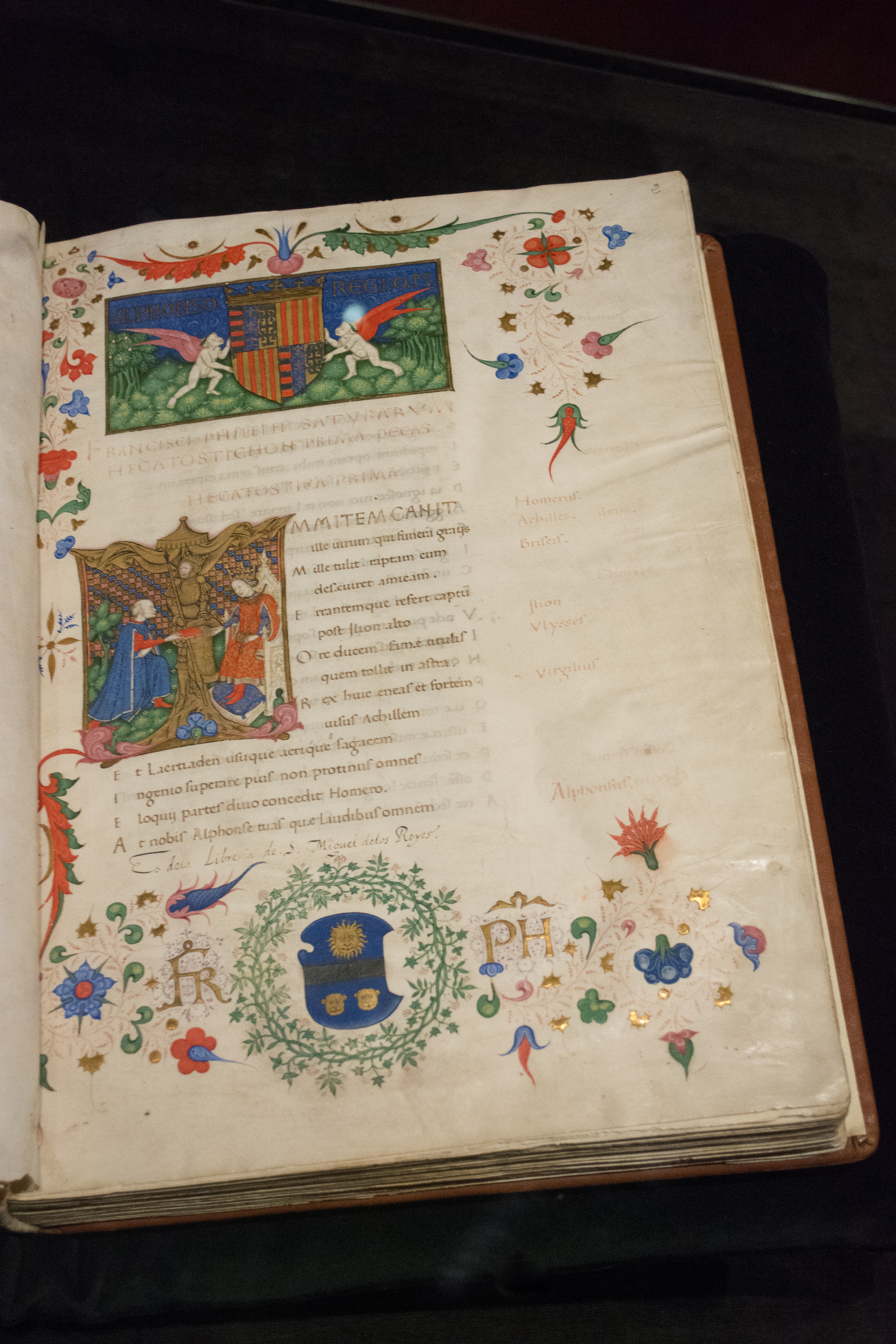 Manuscript of 1449 on vellum belonging to the library of the Aragonese kings of Naples. The codex transcribes the ten books of the Satyrae hecatostica by Francesco Filelfo, a set of one hundred satirical compositions in hexameters. Decoration: orle of gold and colors on the first sheet. In the upper part, the coat of arms of King Alfonso V of Aragon is represented, with the inscription Alphonso regi optimo maximo. At the bottom, the Filelfo shield surrounded by a laurel wreath. The capital letter miniature of the page 2r shows the delivery of the manuscript by the author to the king seated in his seat. Binding: fifteenth century. Ancient humanistic writing. 201 pages. 342 x 245 mm, binding 360 x 265 mm. Provenance: Milan. Language: Latin Collection Duke of Calabria. University of Valencia. Historical Library. BH Ms. 398.